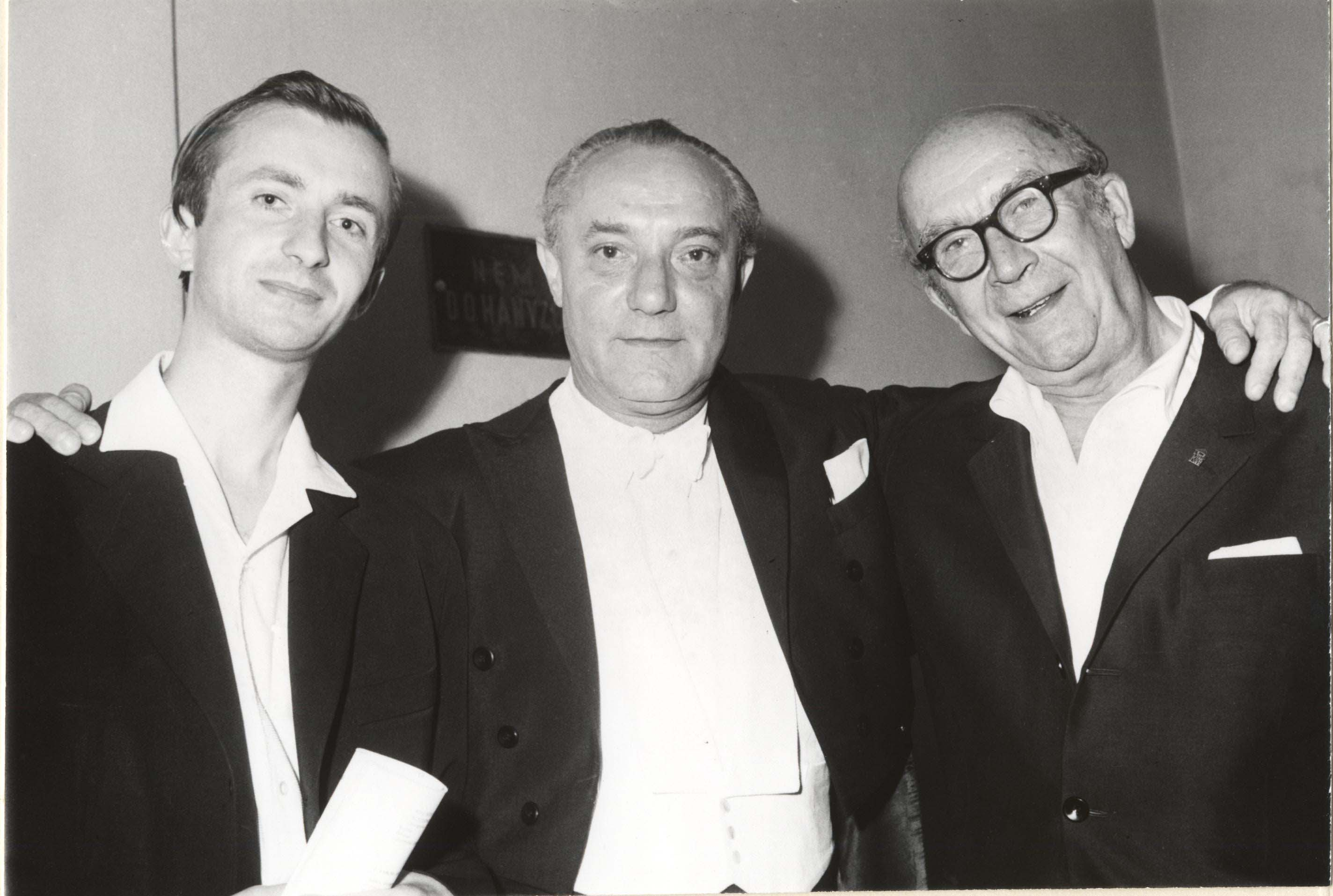 After the performance of Árpád Balázs with Kossuth Prize laureates János Ferencsik and Zoltán Vásárhelyi